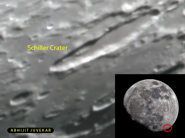 The location of crater Schiller is highlighted by red circle on the inset moon image. The Best view of this crater can be seen on 90% Waxing Gibbous Moon phase.